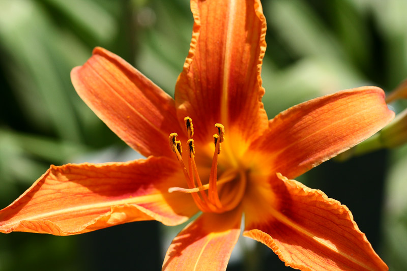 رویش گل ها در طالقان عکس: امیررضا توسلی